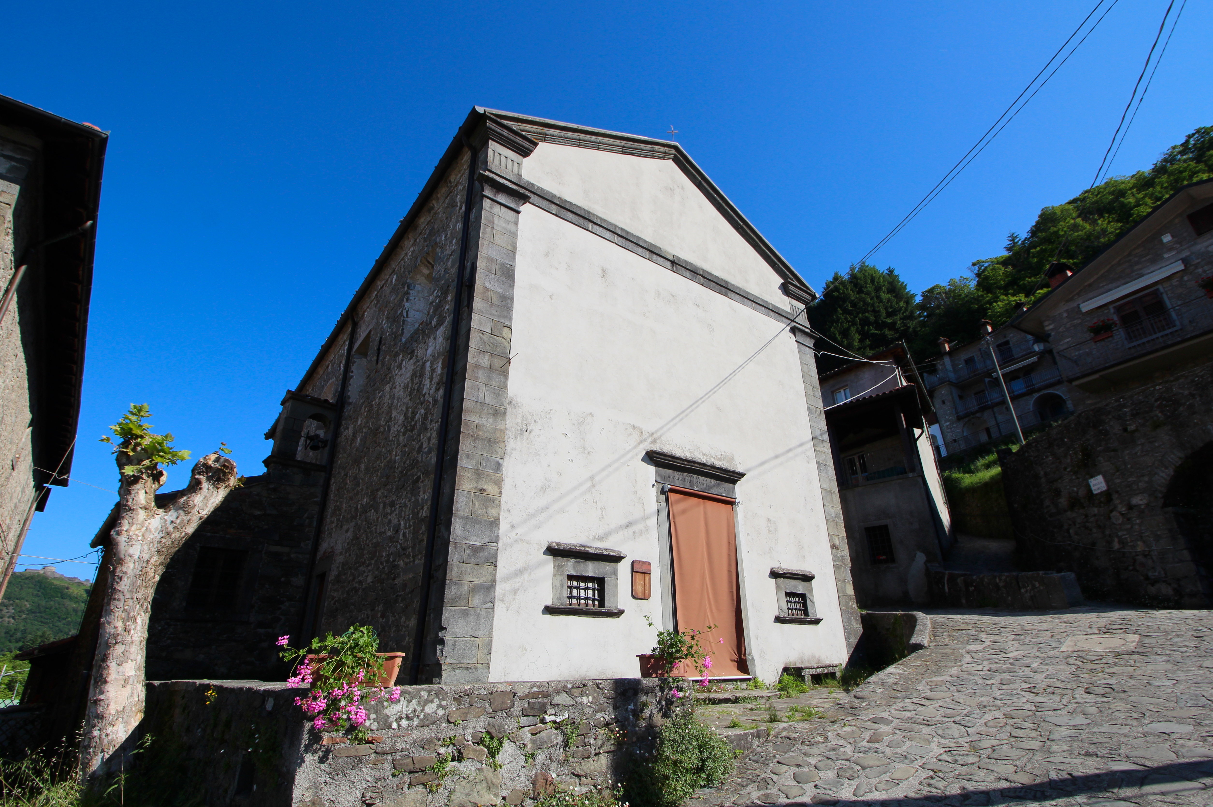 Church San Rocco, San Romano in Garfagnana, Province of Lucca, Tuscany, Italy